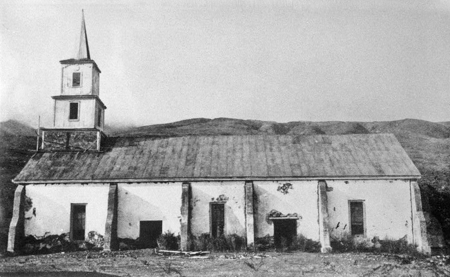 The historic congregational church in Kaluaʻaha on the island of Molokaʻi in Hawaii, before its first restoration around 1912. It was founded by Harvey Rexford Hitchcock (1800–1855) and built starting in about 1844.